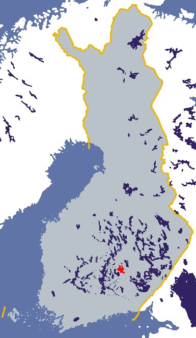 Location of lake Puula(vesi) in Finland